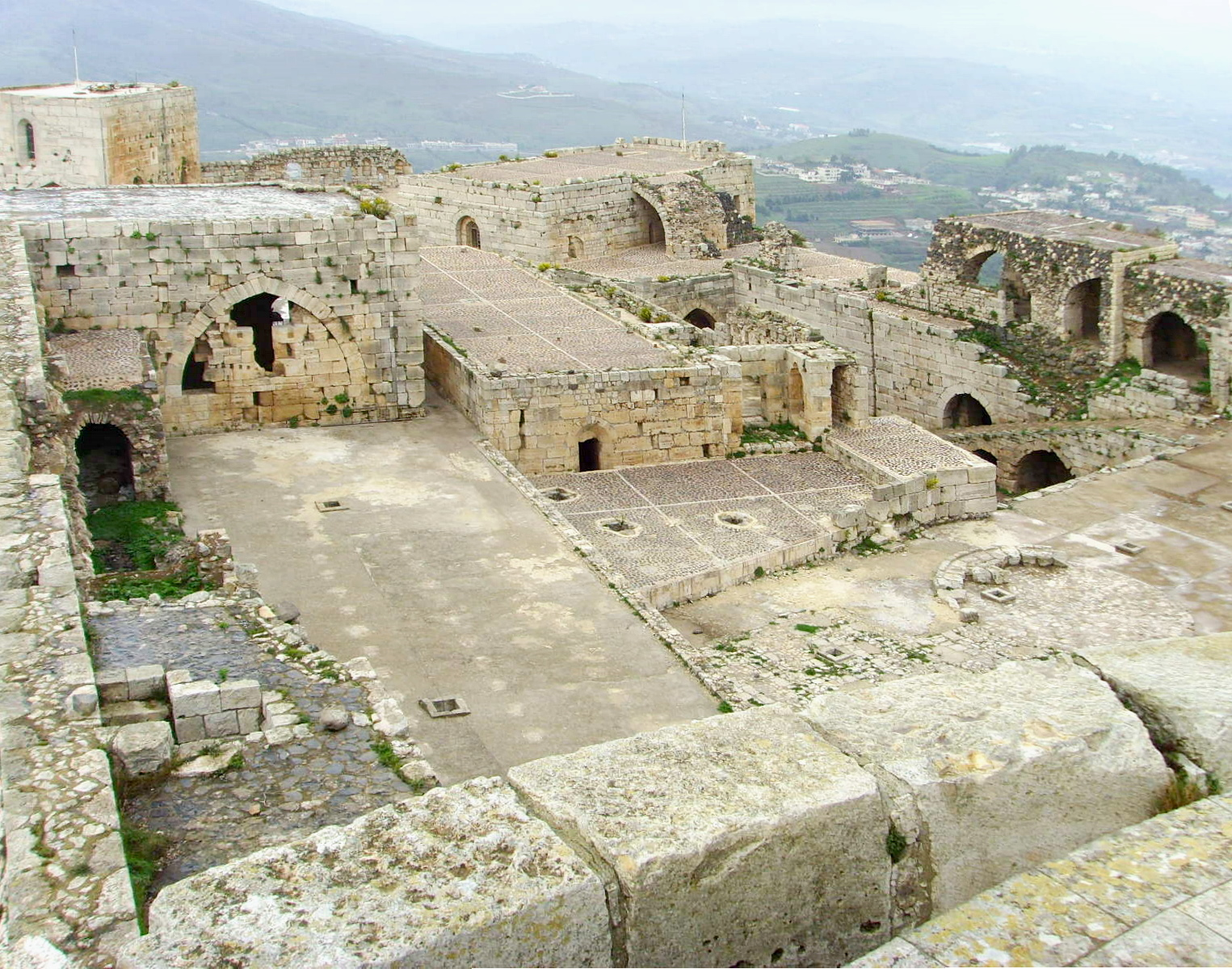 Crac des Chevaliers